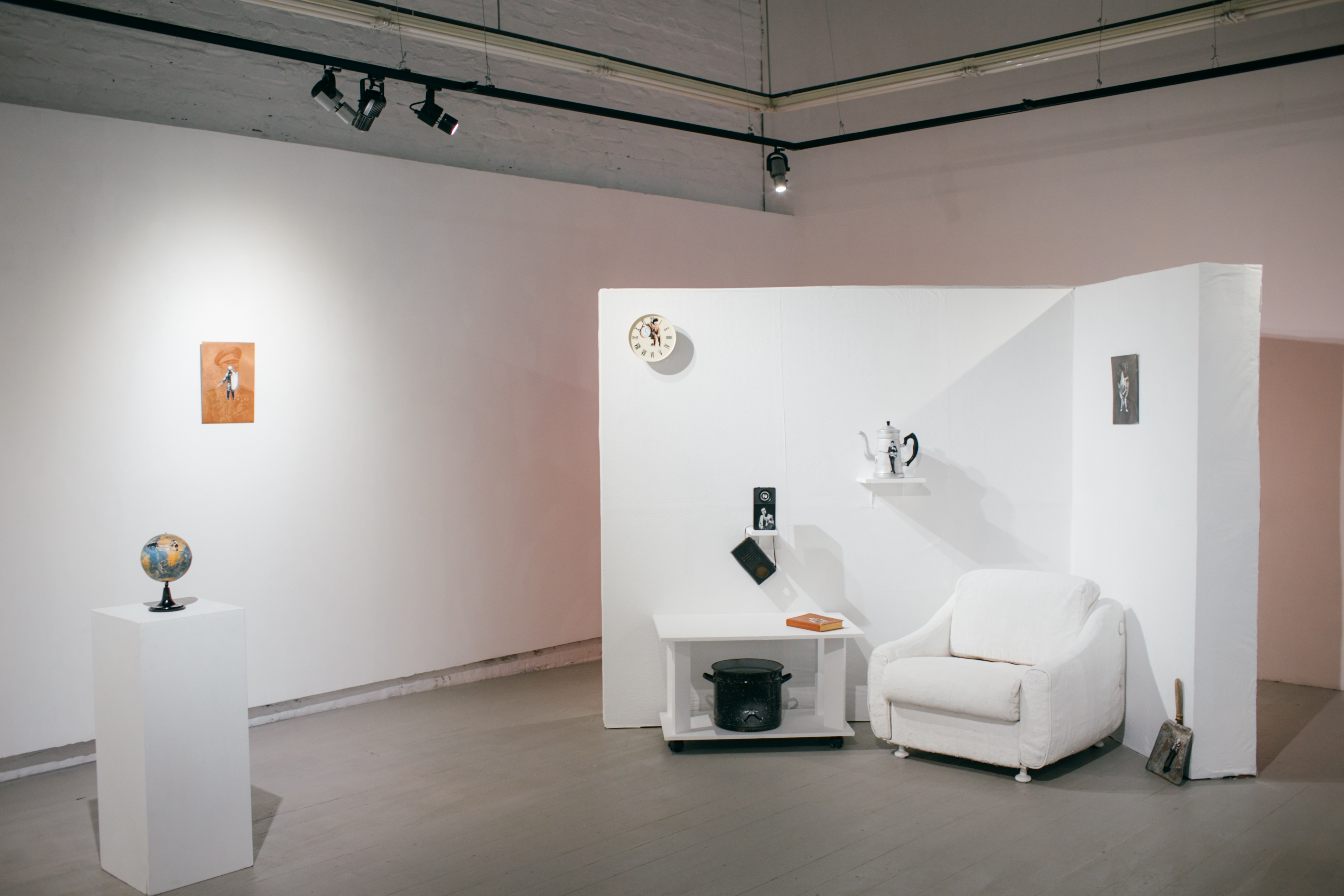 11.12GALLERY Second